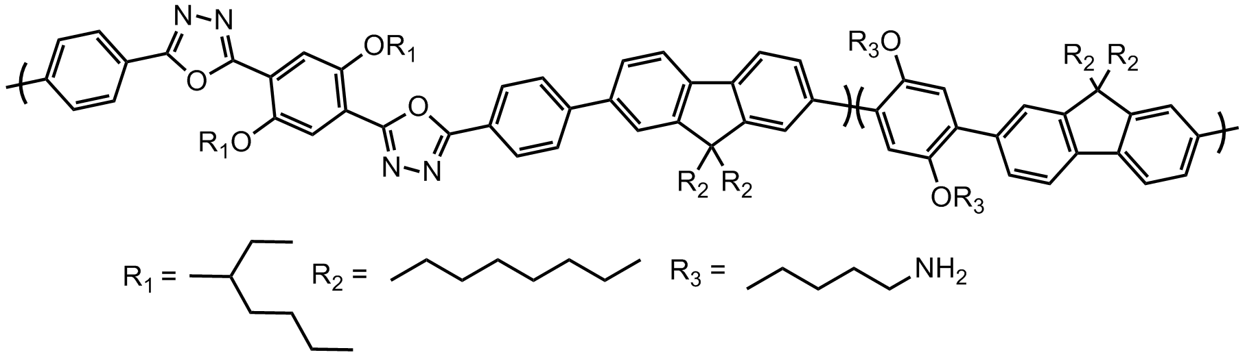 This is an the structure of a polymer containing fluorene, oxadiazole, and benzene.